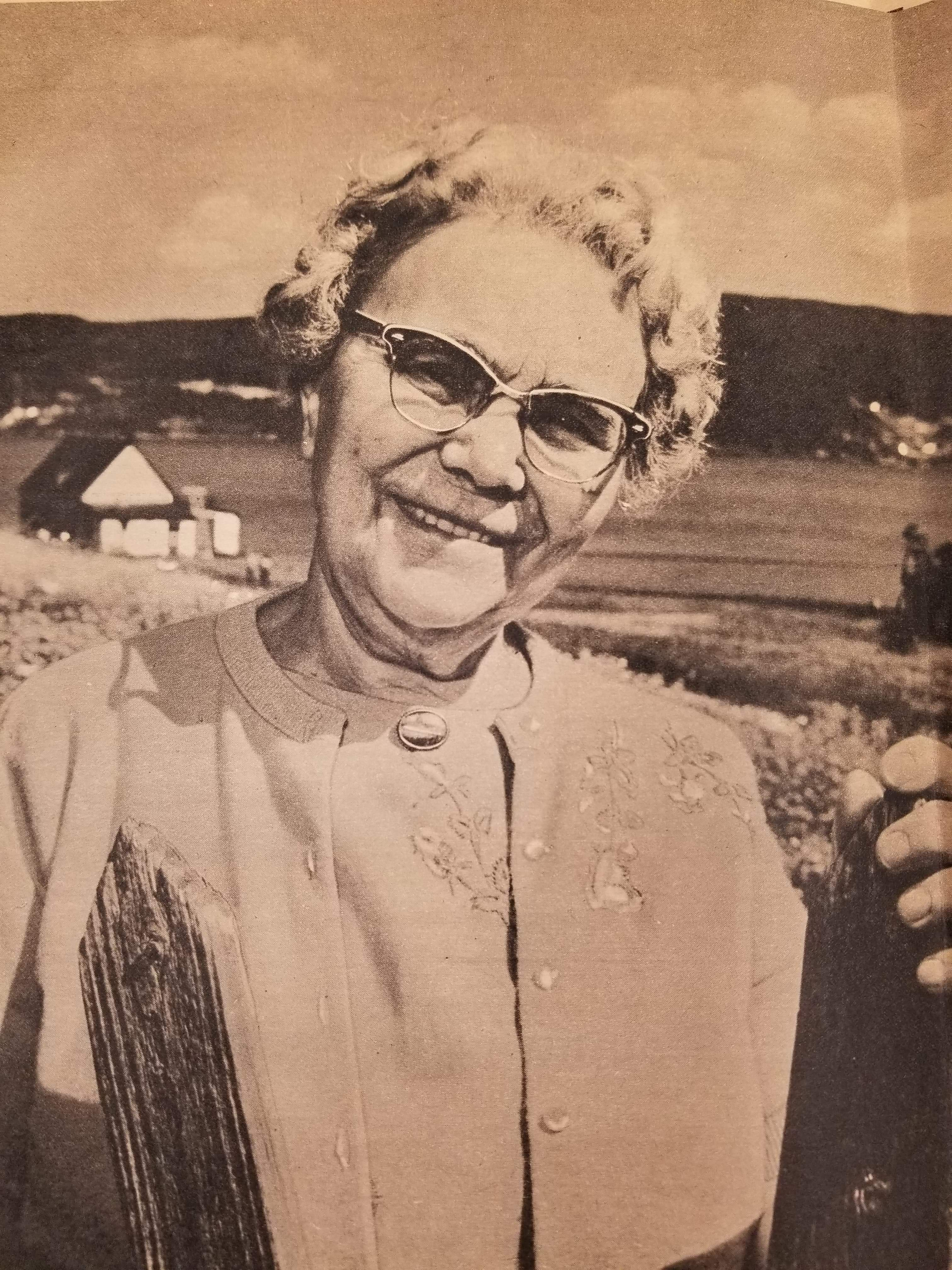 Myra Bennett, 75 years old